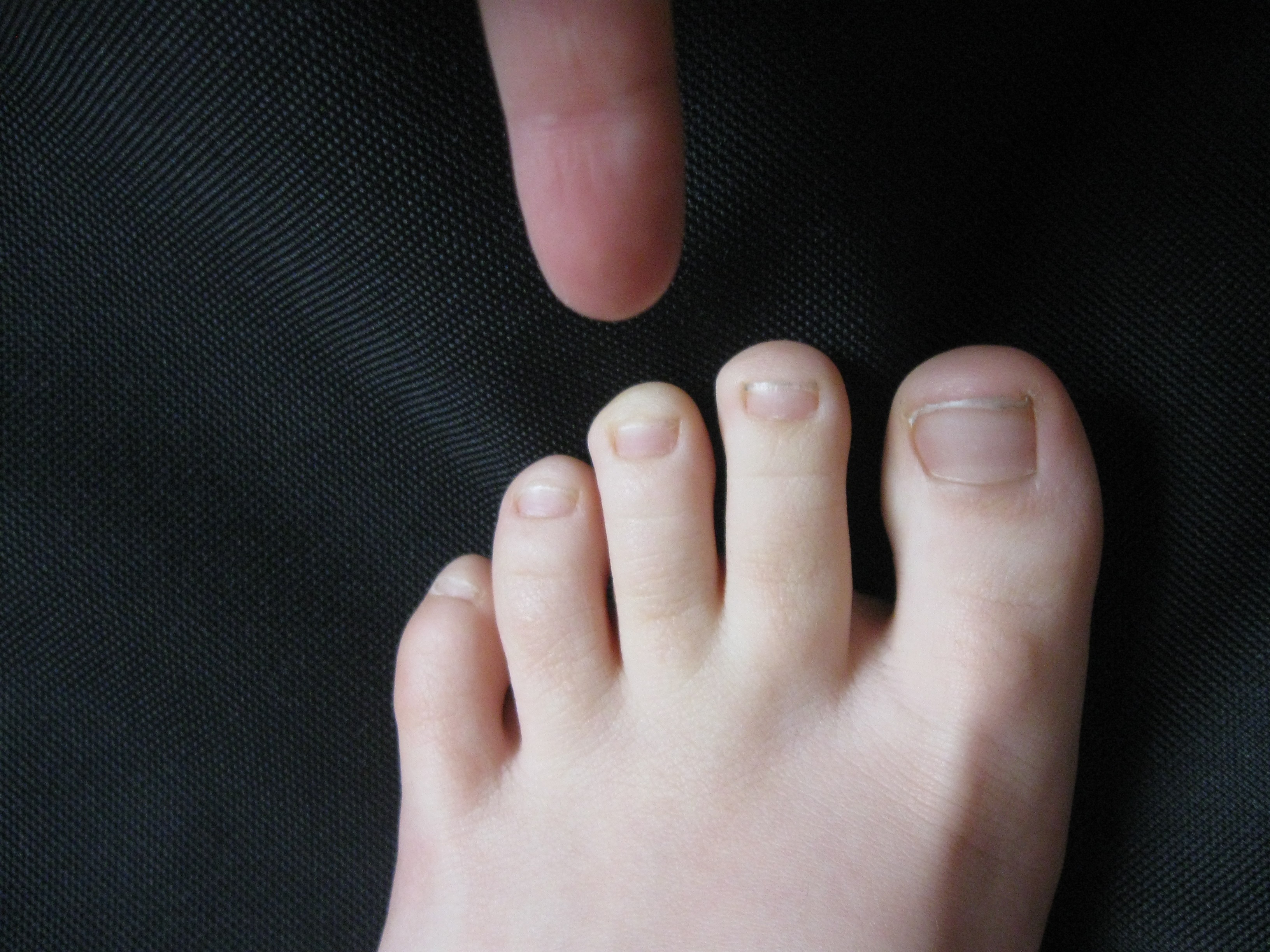 Third toe for left leg.